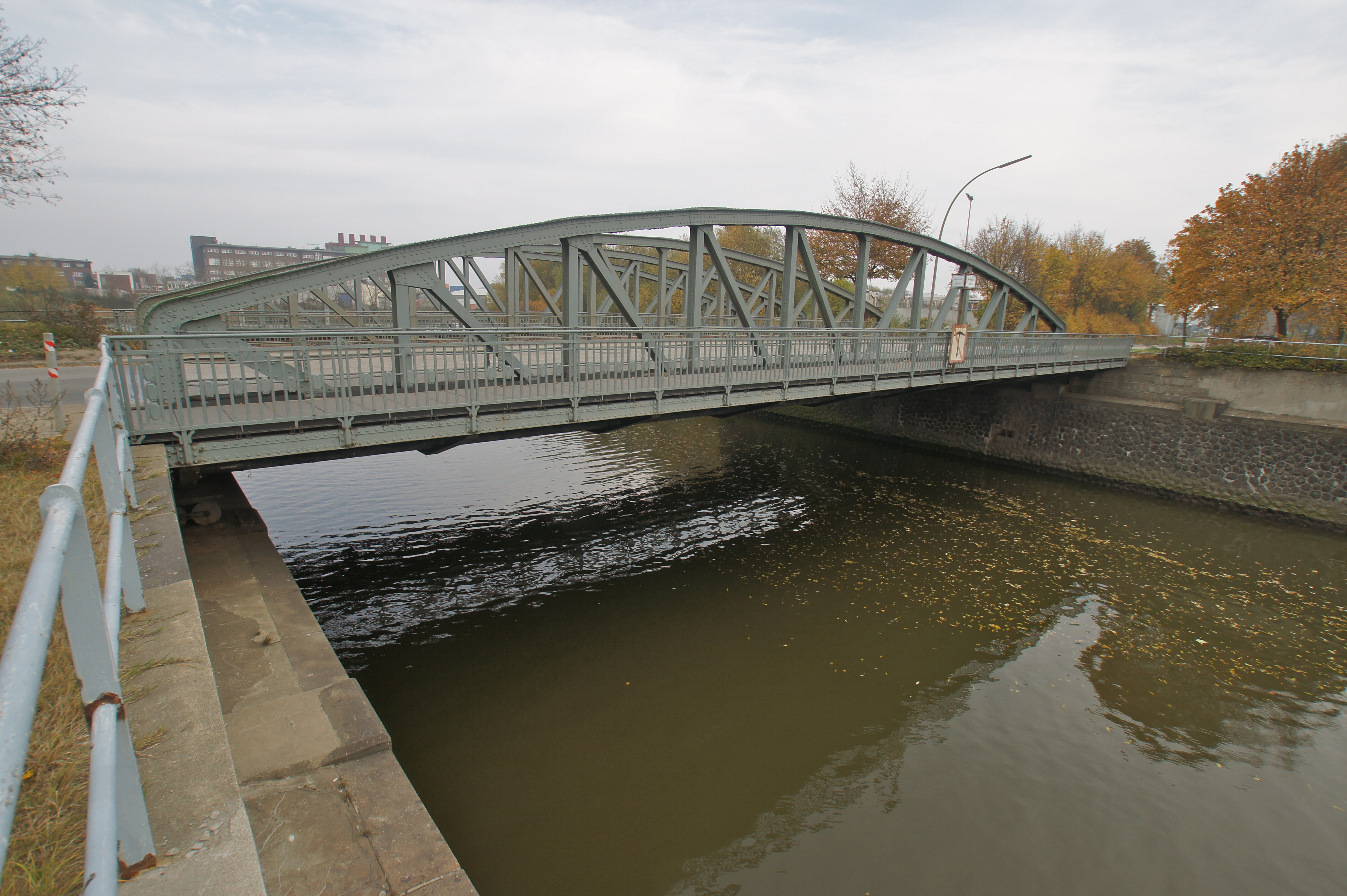 Hamburg (Veddel), Germany: The bridge over the Moorkanal